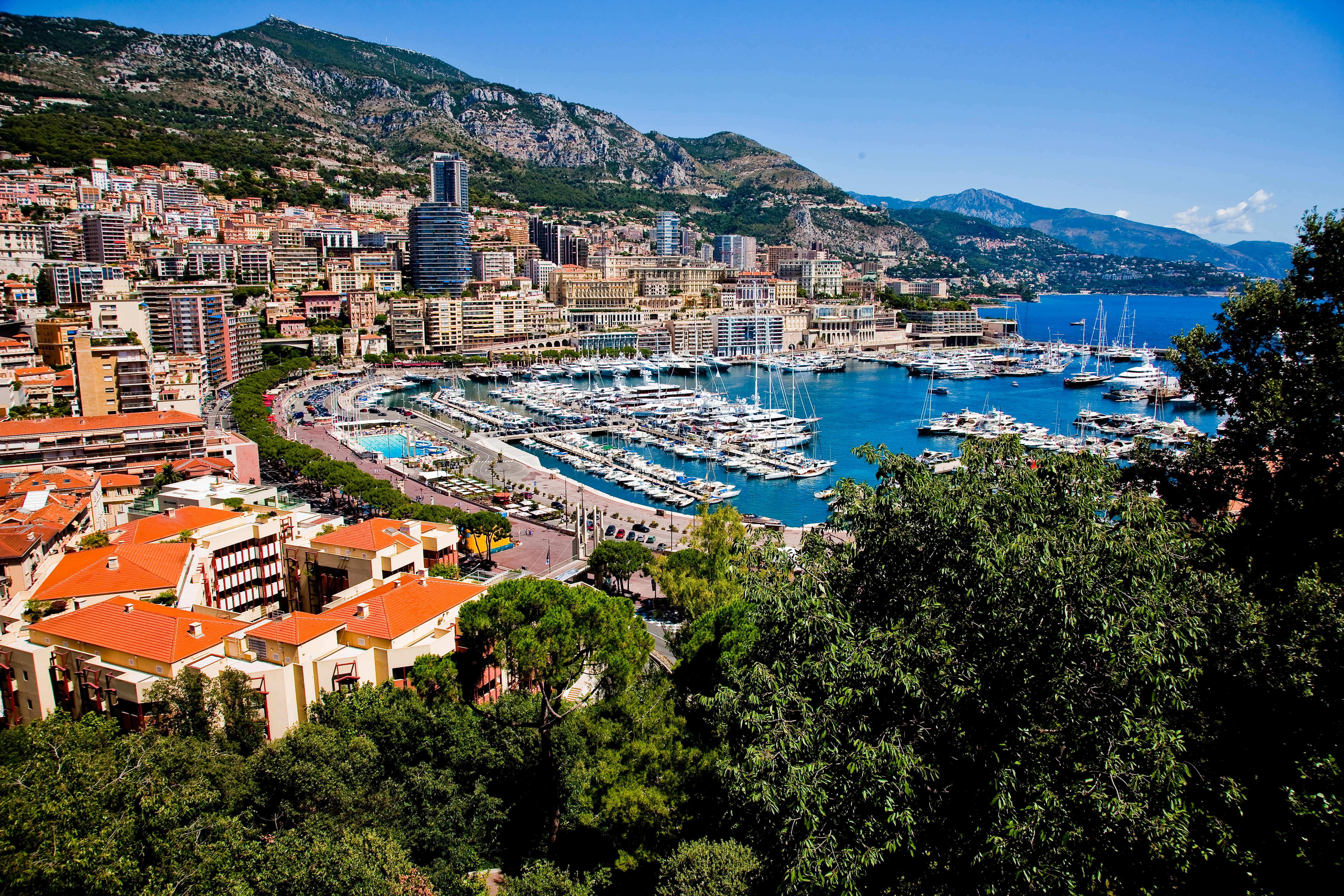 Monte Carlo